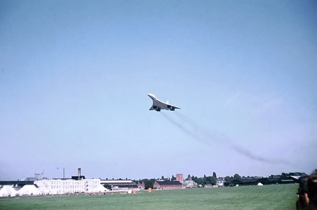 First Concorde at Farnborough. At the 1970 airshow